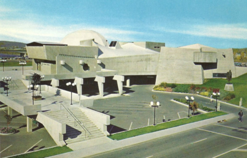 CentennialPlanetarium1970 R. Hopf